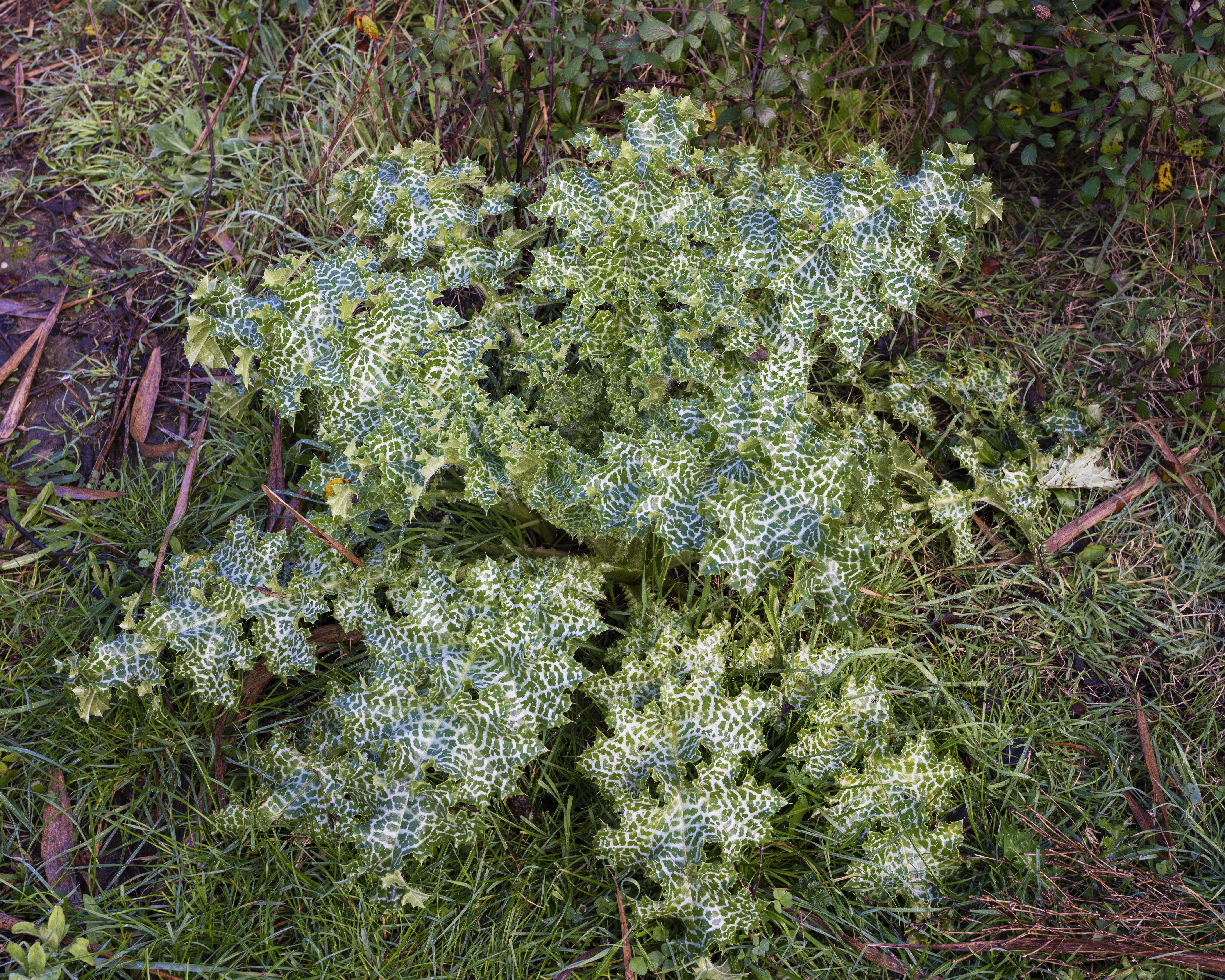 Silybum marianum near the Canal du Rhône à Sète in the commune of Saint-Gilles, Gard, France